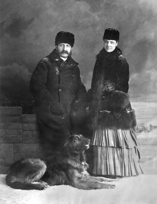 Photograph, Mr. & Mrs. Charles Fleetford Sise and their dog, Montreal, QC, 1884, William Notman & Son, Silver salts on paper - Albumen process - 13.9 x 9.8 cm